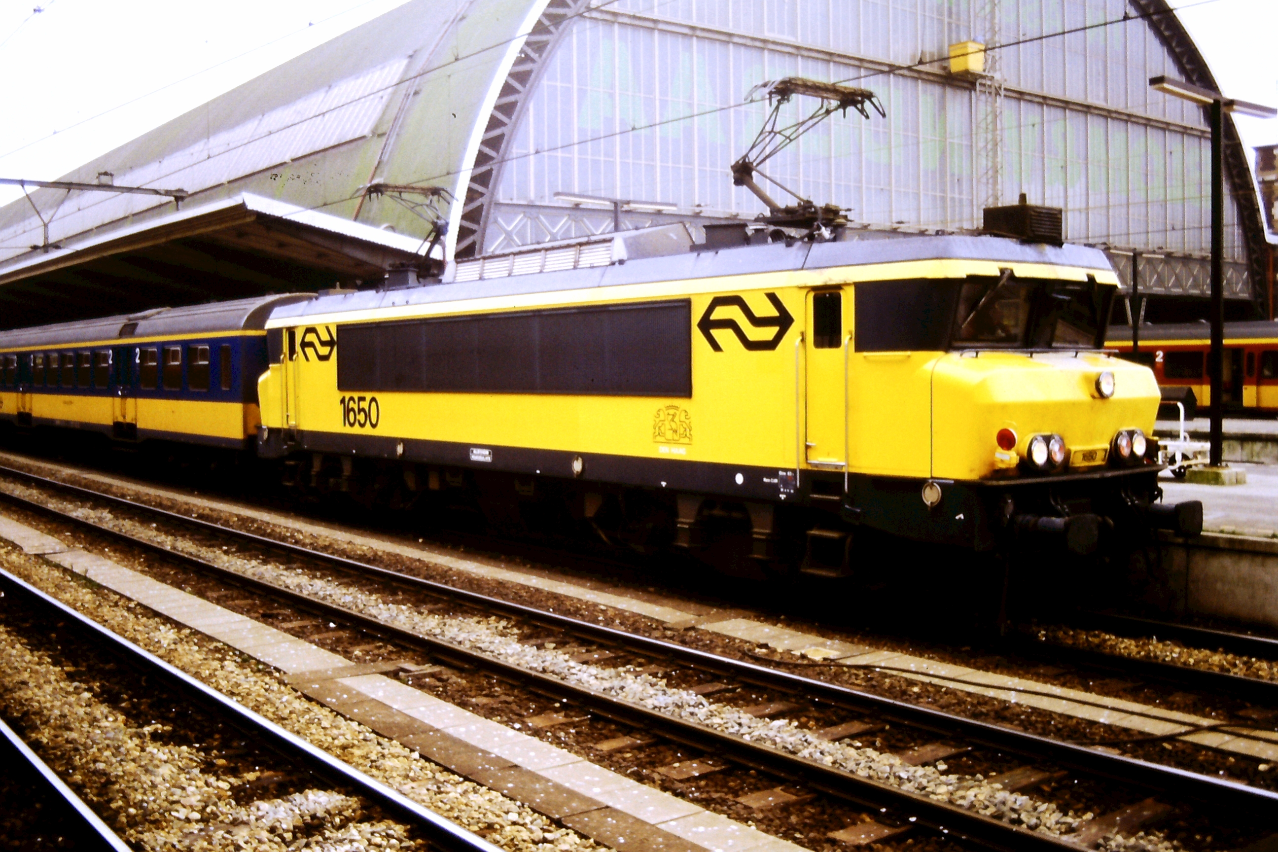 NS 1650 at Amsterdam CS. Scanned from a slide.